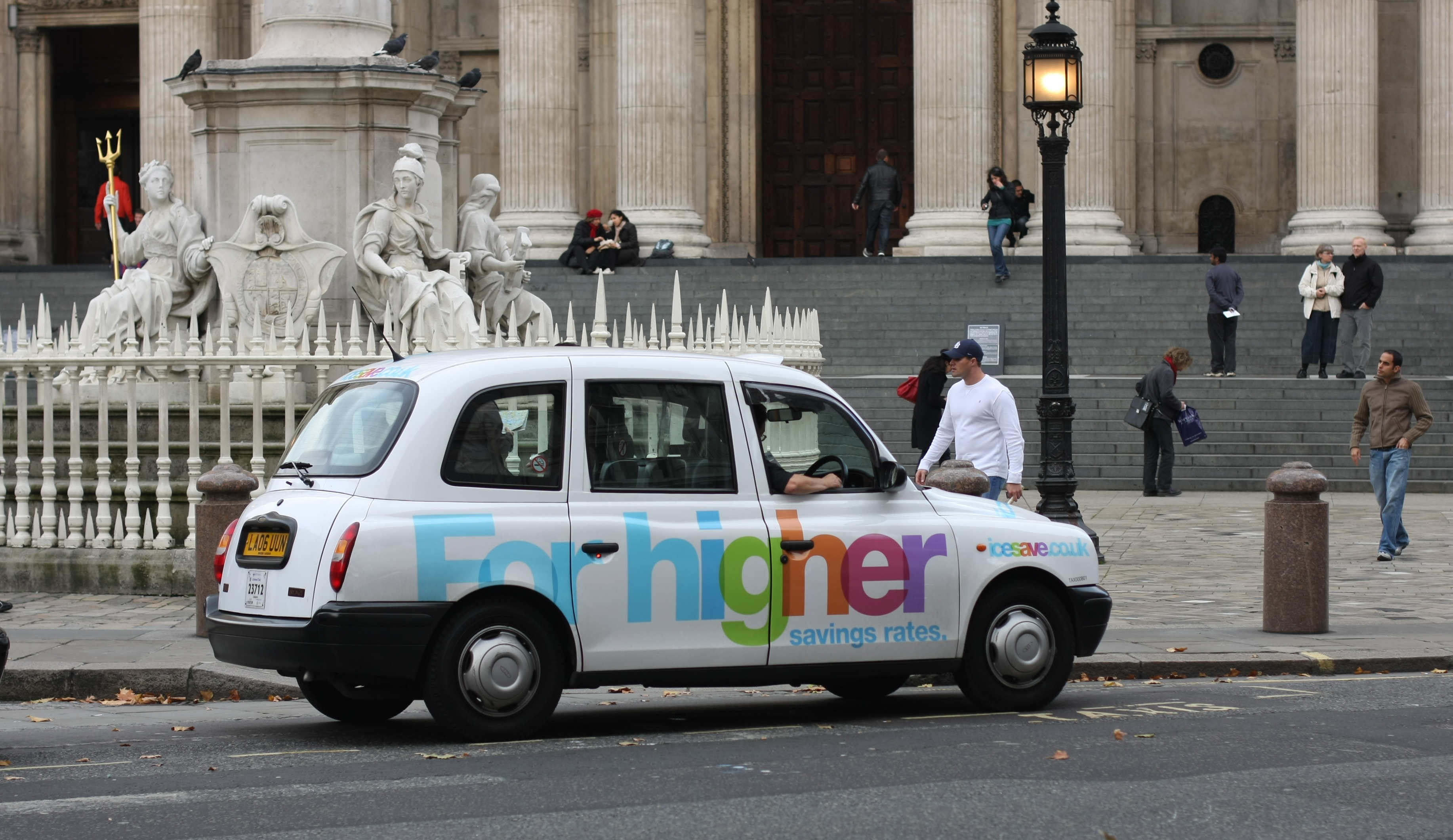 Seen outside St. Paul's Cathedral - a London cab advertising Landsbanki's failed online bank, Icesave. If you climb into the taxi, the driver will say it's fine, and it'll drive faster than any other taxi on the road, but it'll fall apart underneath you without warning.